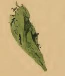 Stainton’s Natural History of the Tineina (1855–1873): Depressaria emeritella part of a Chrysanthemum vulgare leaf folded by larva